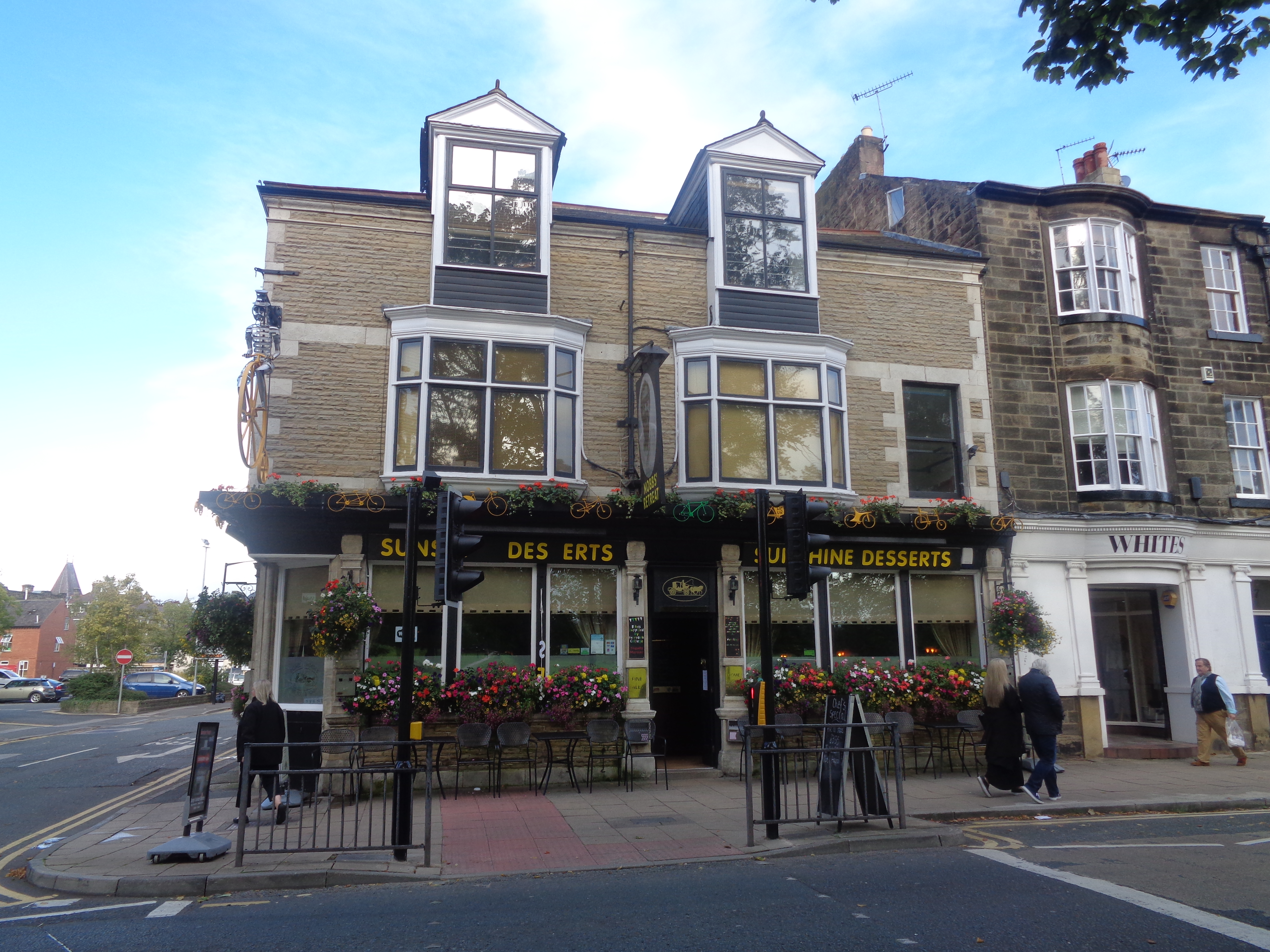 Nobbs' Retreat; the Coach and Horses dressed as Sunshine Desserts shortly after Reggie Perrin's writer David Nobbs death. The pub is usually the Coach and Horses on West Park in Harrogate, North Yorkshire. Taken on the afternoon of Tuesday the 1st of September 2015.